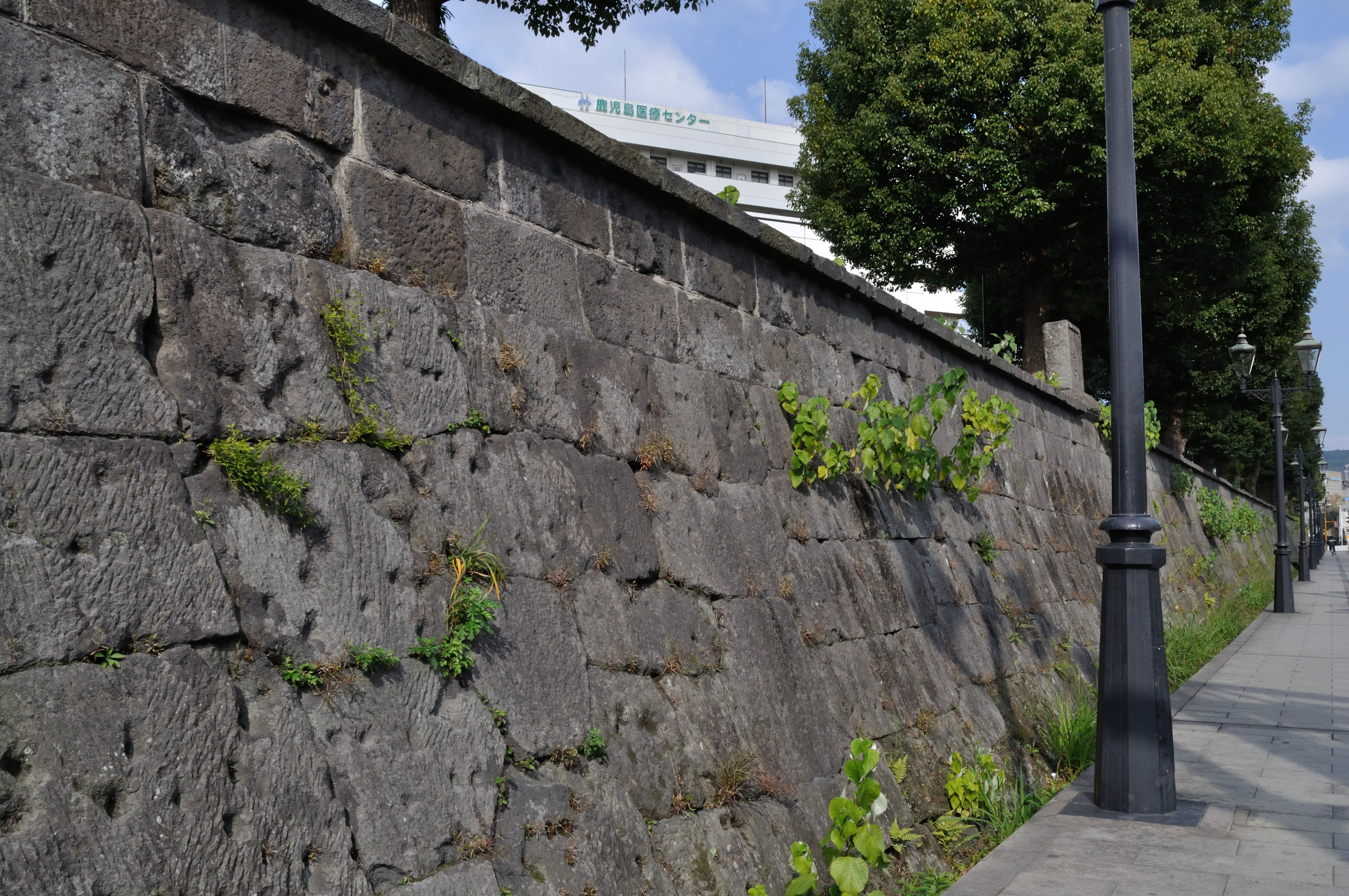 Stone wall of Shigakkō, Saigō Takamori's private military school, with bullet marks of the Satsuma Rebellion.